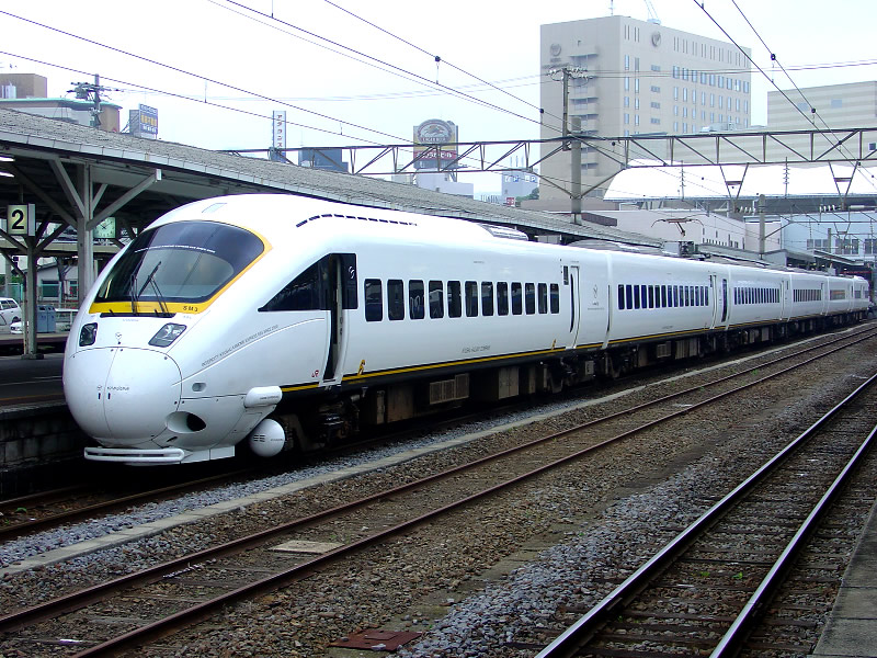 JR Kyushu 885 series EMU on a Shiroi Kamome service at Nagasaki Station